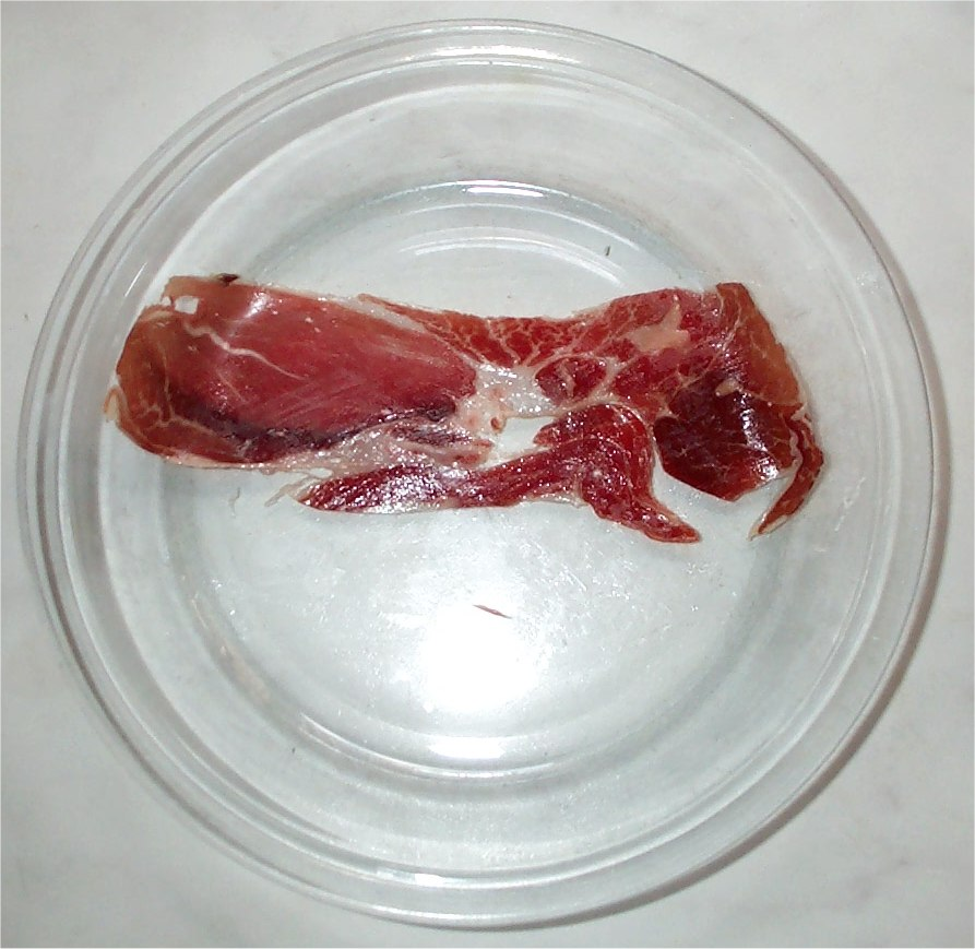 A Slice of Paleta ibérico (Guijuelo D.O.P. / P.D.O.). Not brilliant, and if you have a better one, feel free to replace it.